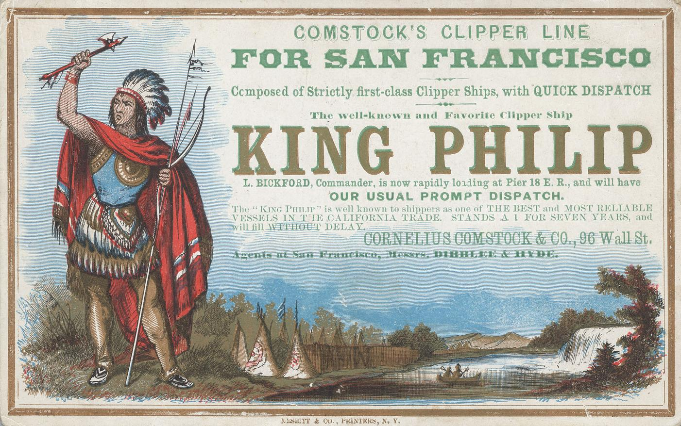 Sailing card for the clipper ship King Philip. I. Bickford, Commander